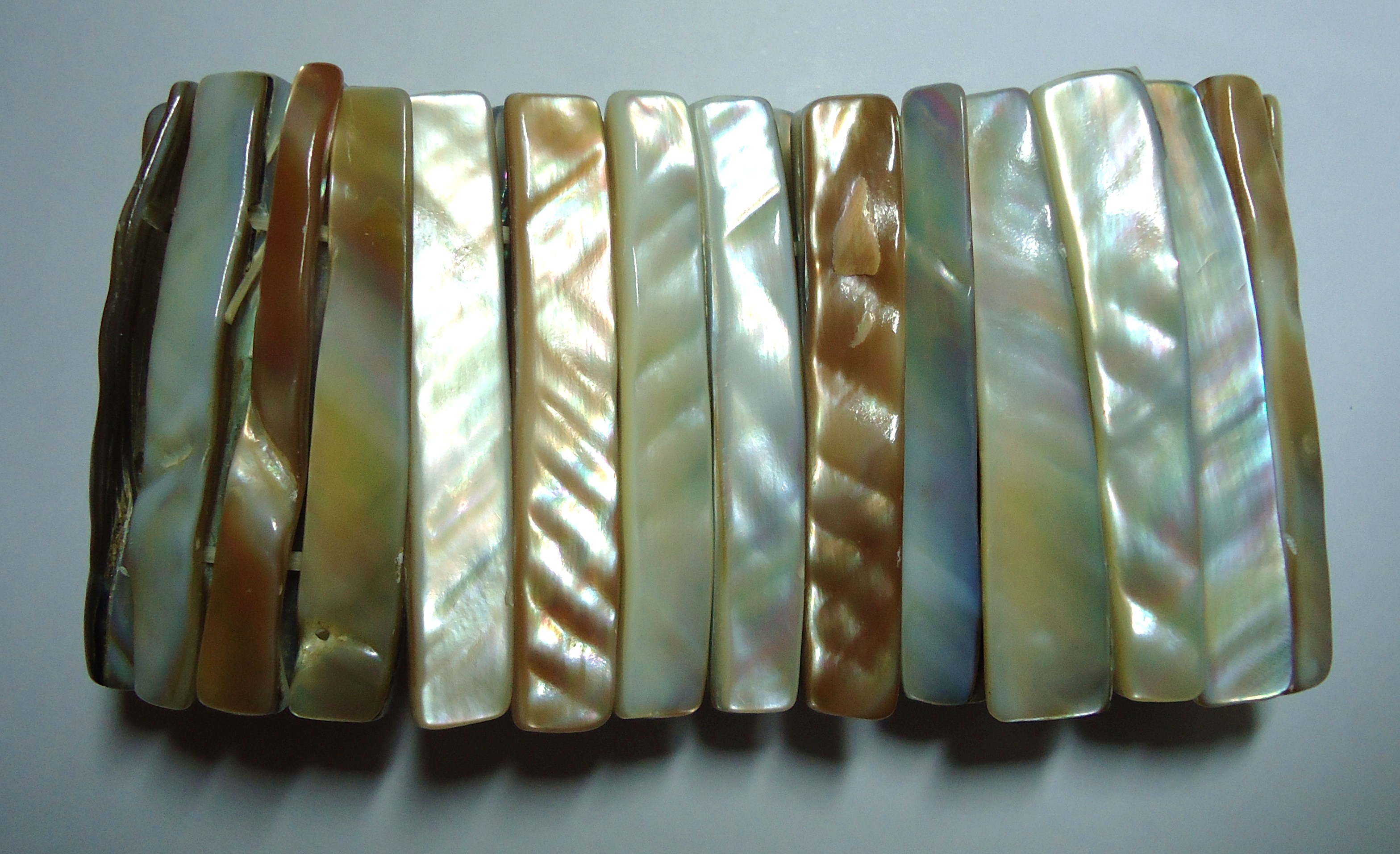 Nacre sticks of various colors.